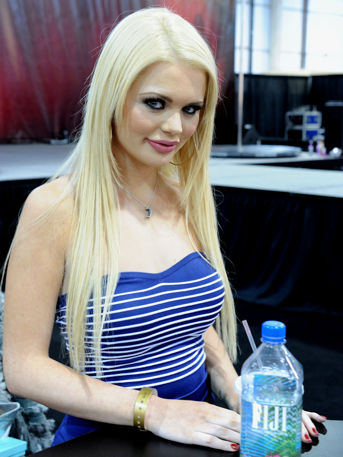 Alexis Ford at AVN Adult Entertainment Expo 2011